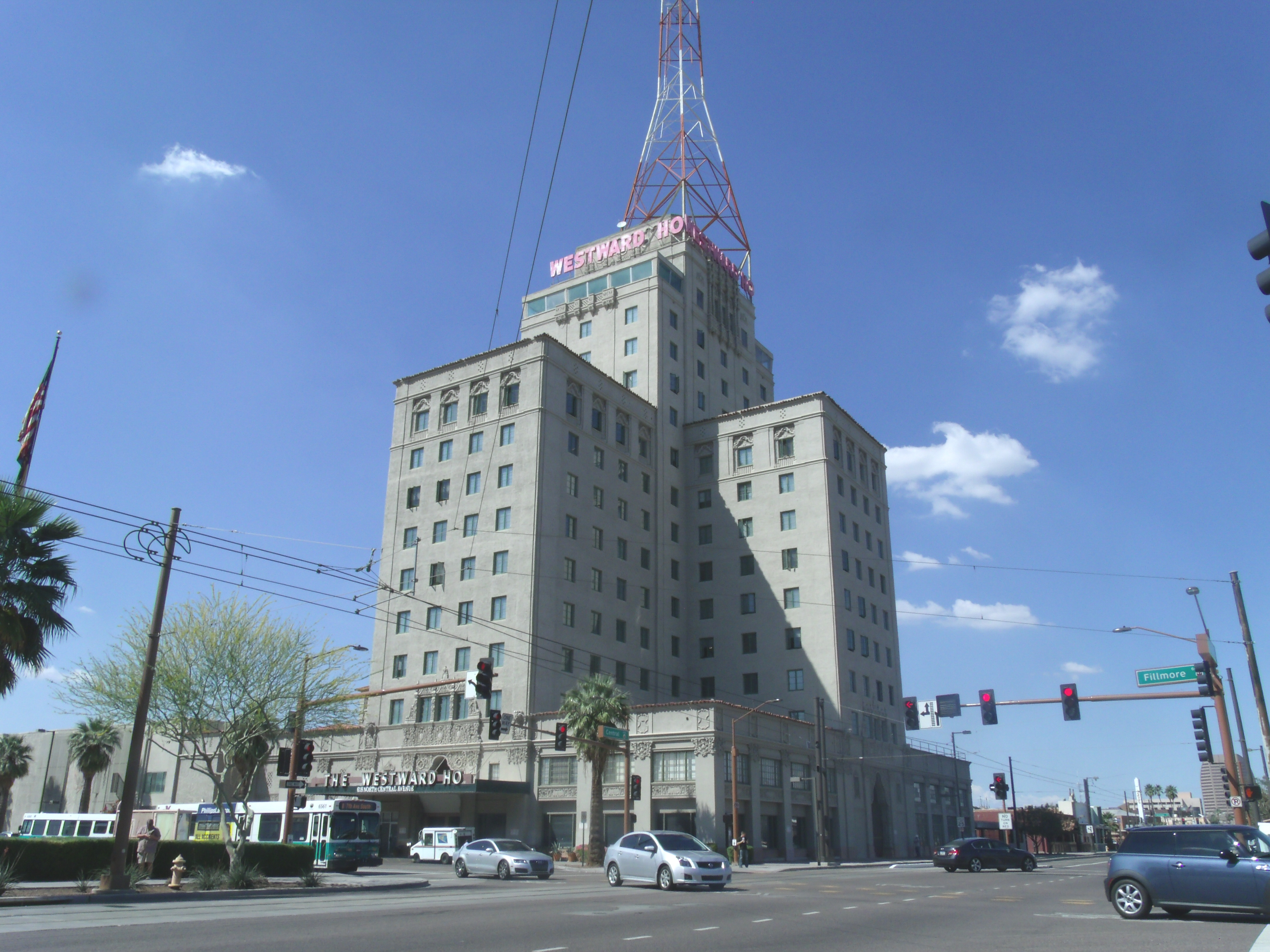 The Westward Ho Hotel was built in 1928 and is located at 618 N. Central Ave in Phoenix, Arizona. It was listed in the National Register of Historic Places on February 19, 1982.